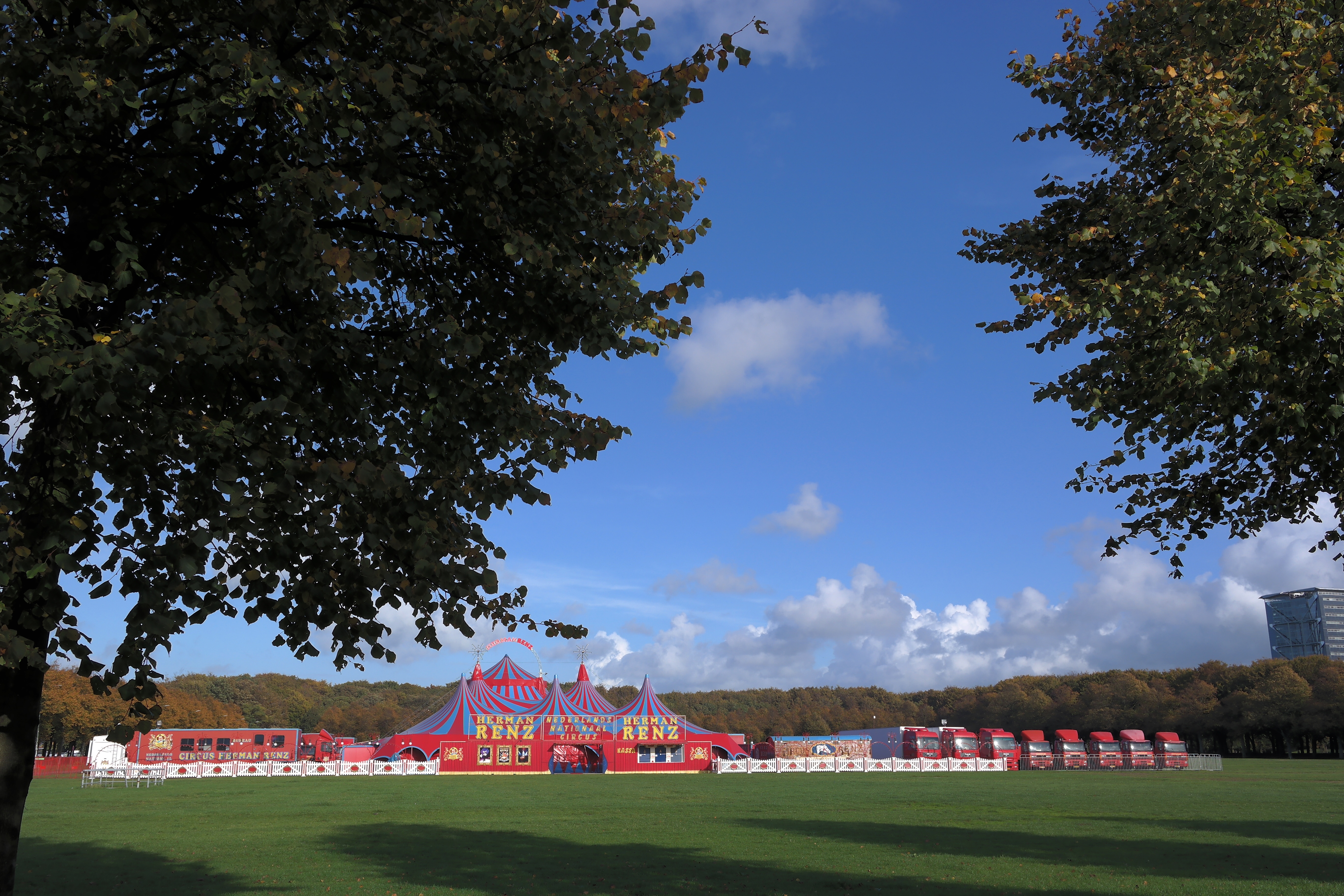 Circus Renz op het Haagse Malieveld in oktober 2014.